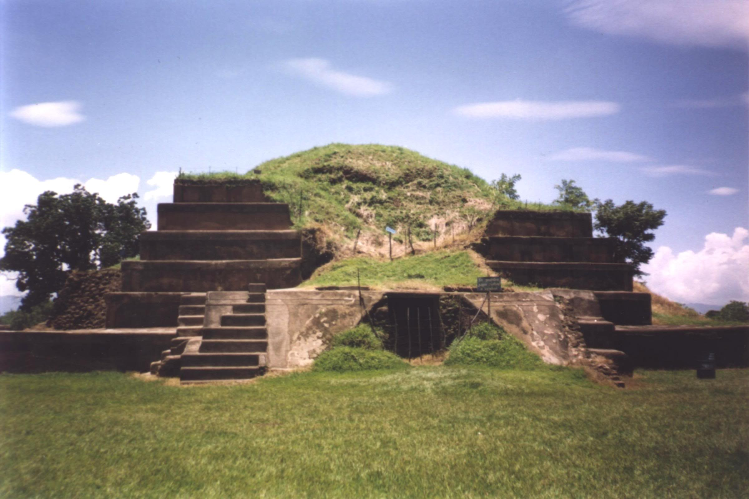 Pyramid at the Maya ruins of San Andrés, La Libertad, El Salvador. Photo taken in 1999.